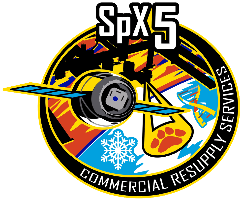 NASA's insignia for SpaceX's Commercial Resupply Services-5 (CRS-5) mission to the International Space Station (SpX-5) The paw print is in reference to NASA's Cloud-Aerosol Transport System (CATS), which is launching in the Dragon's unpressurized trunk. CATS will be mounted on JAXA's Kibo Exposed Facility to study atmospheric constituents that impact global climate.